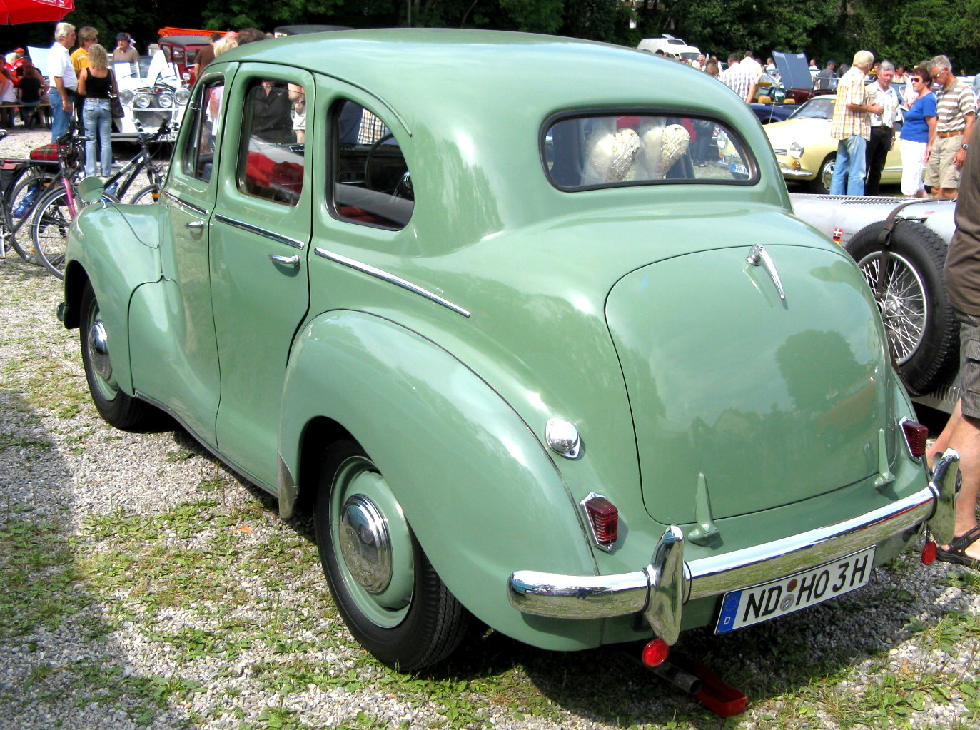 1952 Austin A40 Devon at Vintage Vehicles Meeting in Mering (Bavaria)